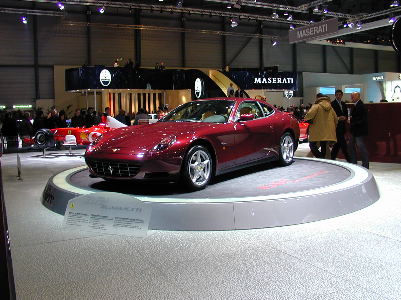 Salon de Genève 2004 SAG2004 213 Ferrari 612 Photographie prise par Utilisateur:Semnoz le 12 mars 2004, et placée sous licence GFDL. Taken by wiki-french-user Semnoz in March 2004 and placed with GFDL licence. Utilisateur:Semnoz 12 mars 2004